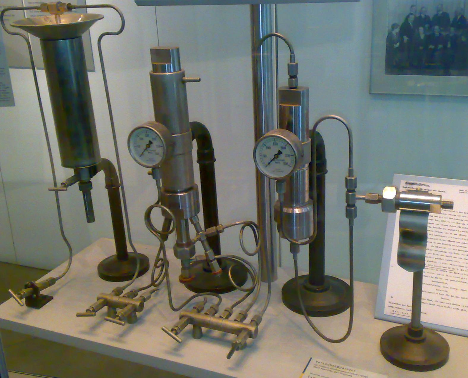 The setup used by Fritz Haber to create ammonia for the first time